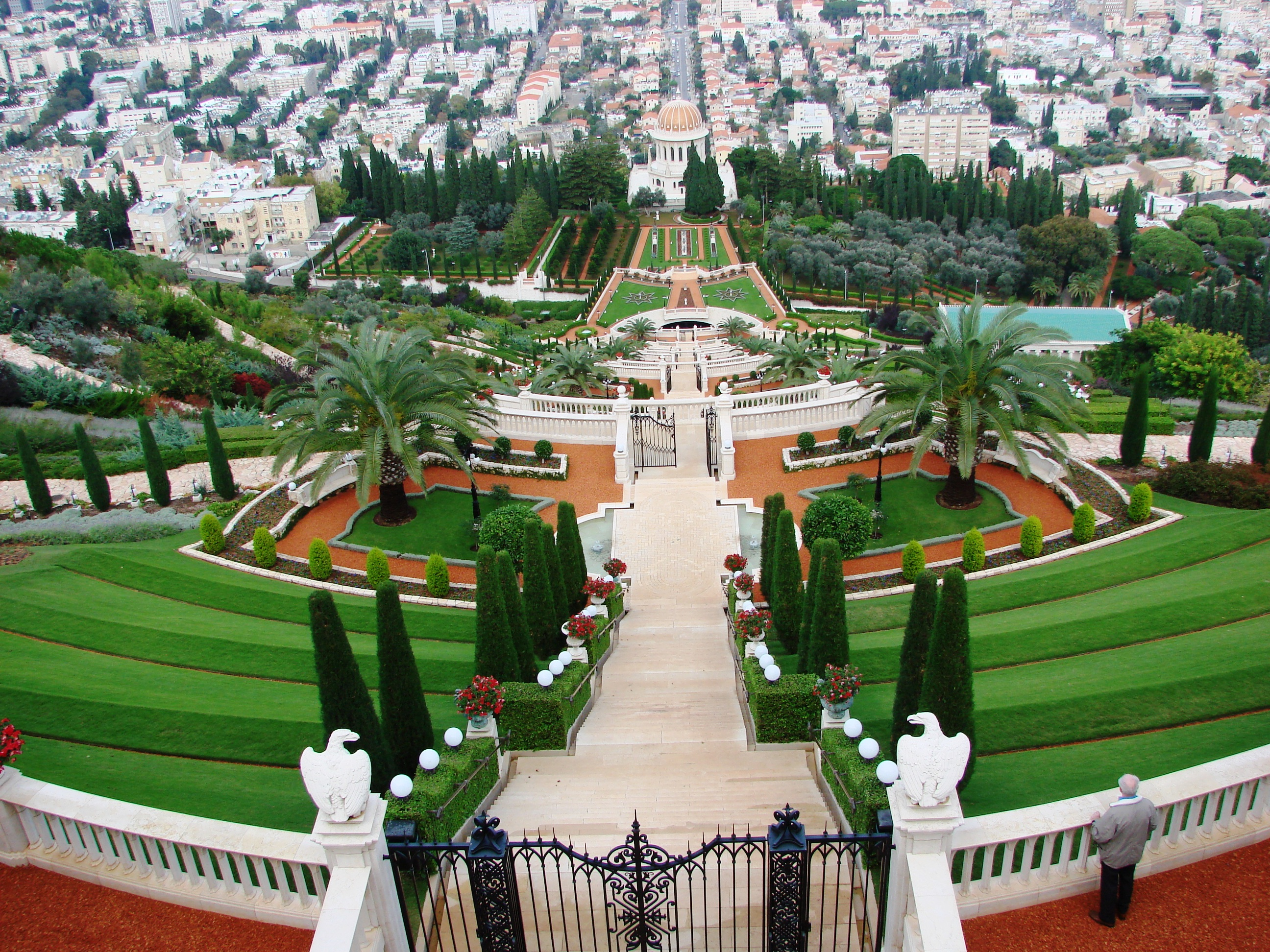 The Bahai gardens in Haifa